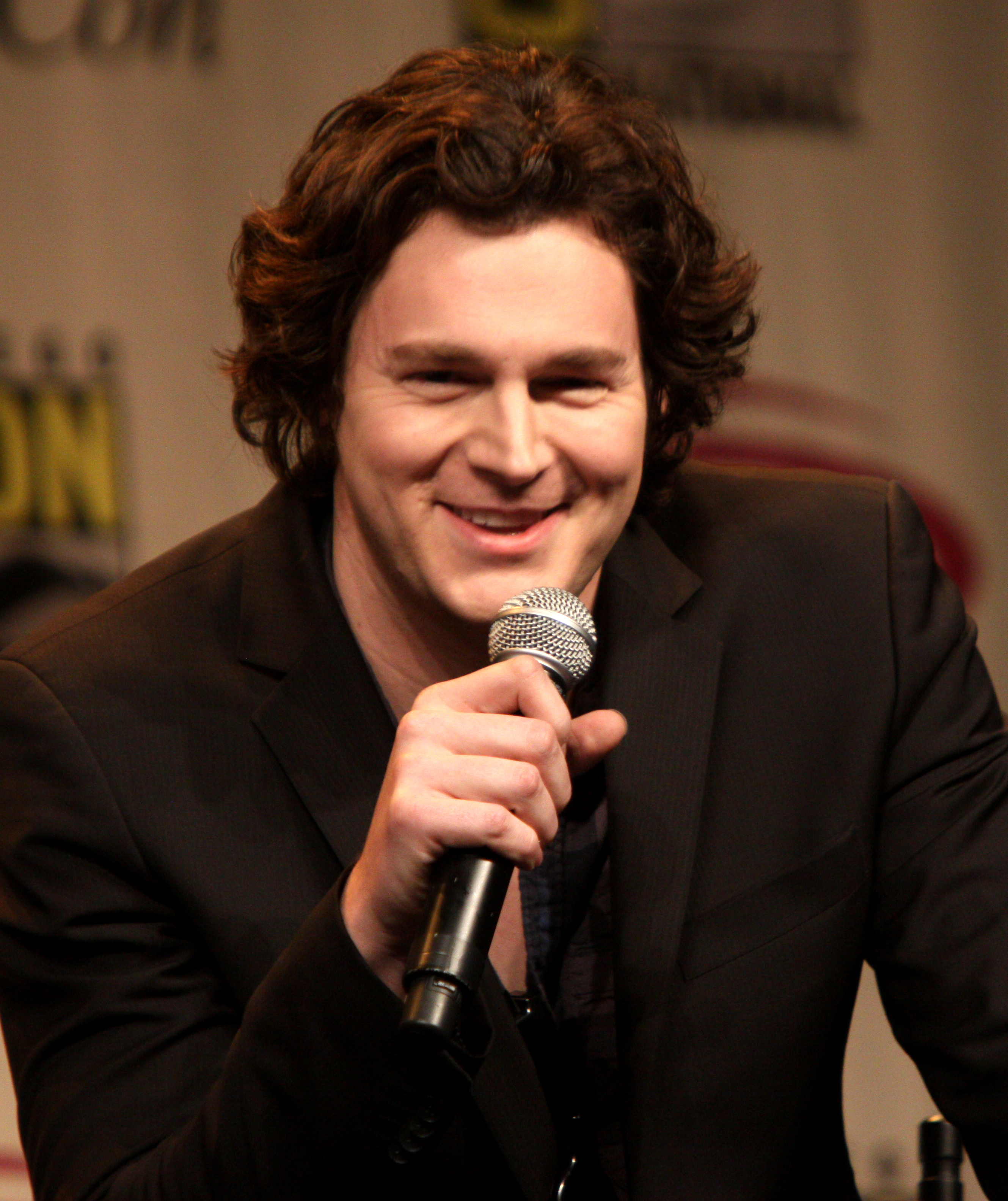 Benjamin Walker speaking at Wondercon 2012 in Anaheim, California on March 17, 2012.